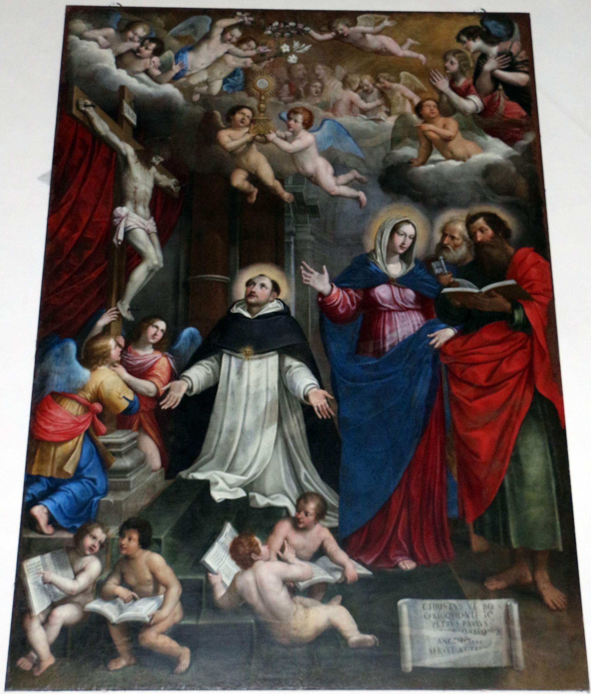 San Domenico (Bologna)